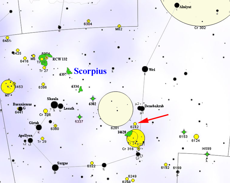 Map of NGC 6242